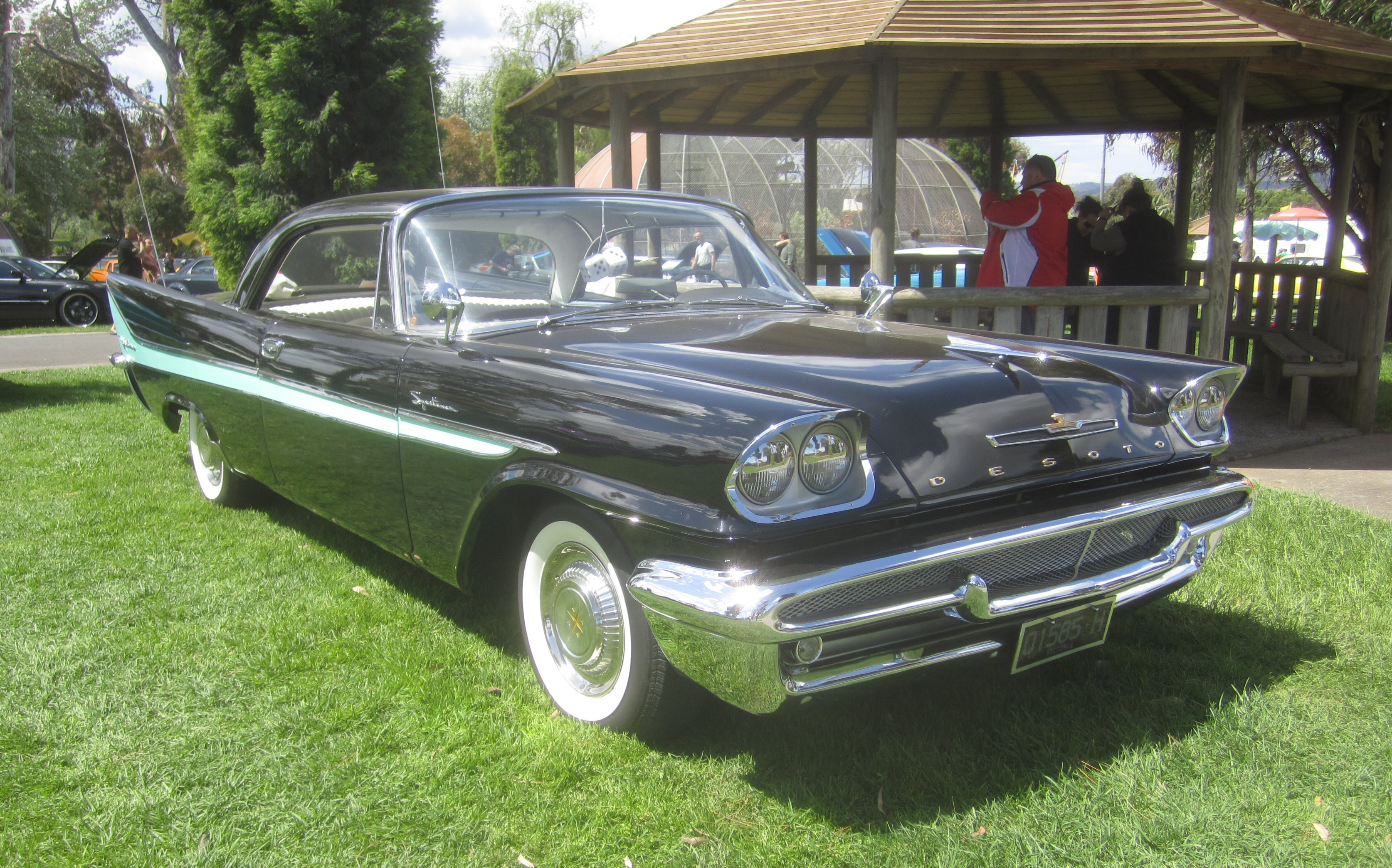 1958 DeSoto Firedome 2 Door Sportsman. (Refer 1958 DeSoto Identification Features)